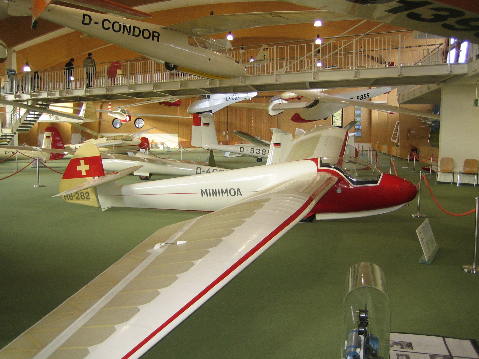 Glider Göppingen Gö 3 Minimoa, on display in the German Sailplane Museum